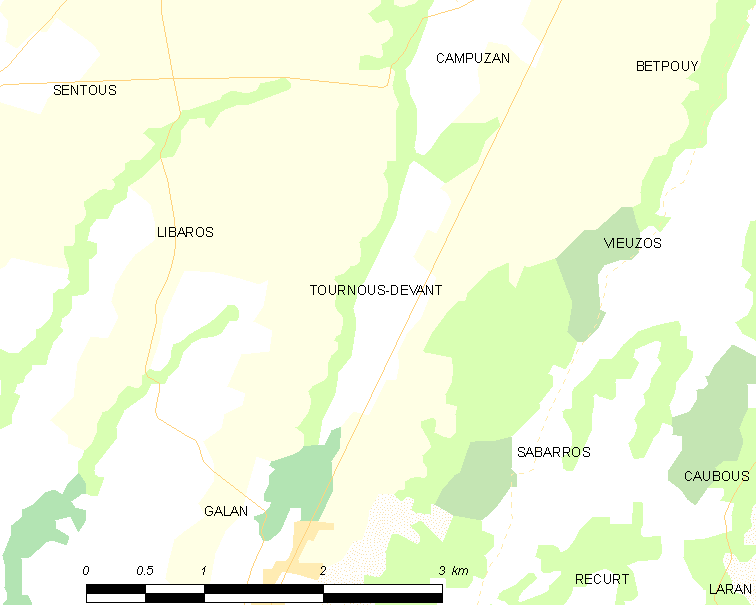 Map of French municipality